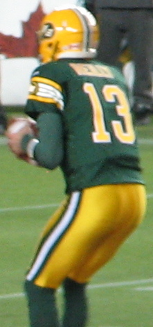 The Calgary Stampeders play the Edmonton Eskimos at Commonwealth Stadium on Friday, 18 October 2013. The Stampeders beat the home town Eskimos by a score of 27-13. Each year the CFL sets aside a weekend to raise awareness for women's cancers and players wear pink tape and gloves to highlight this awareness.